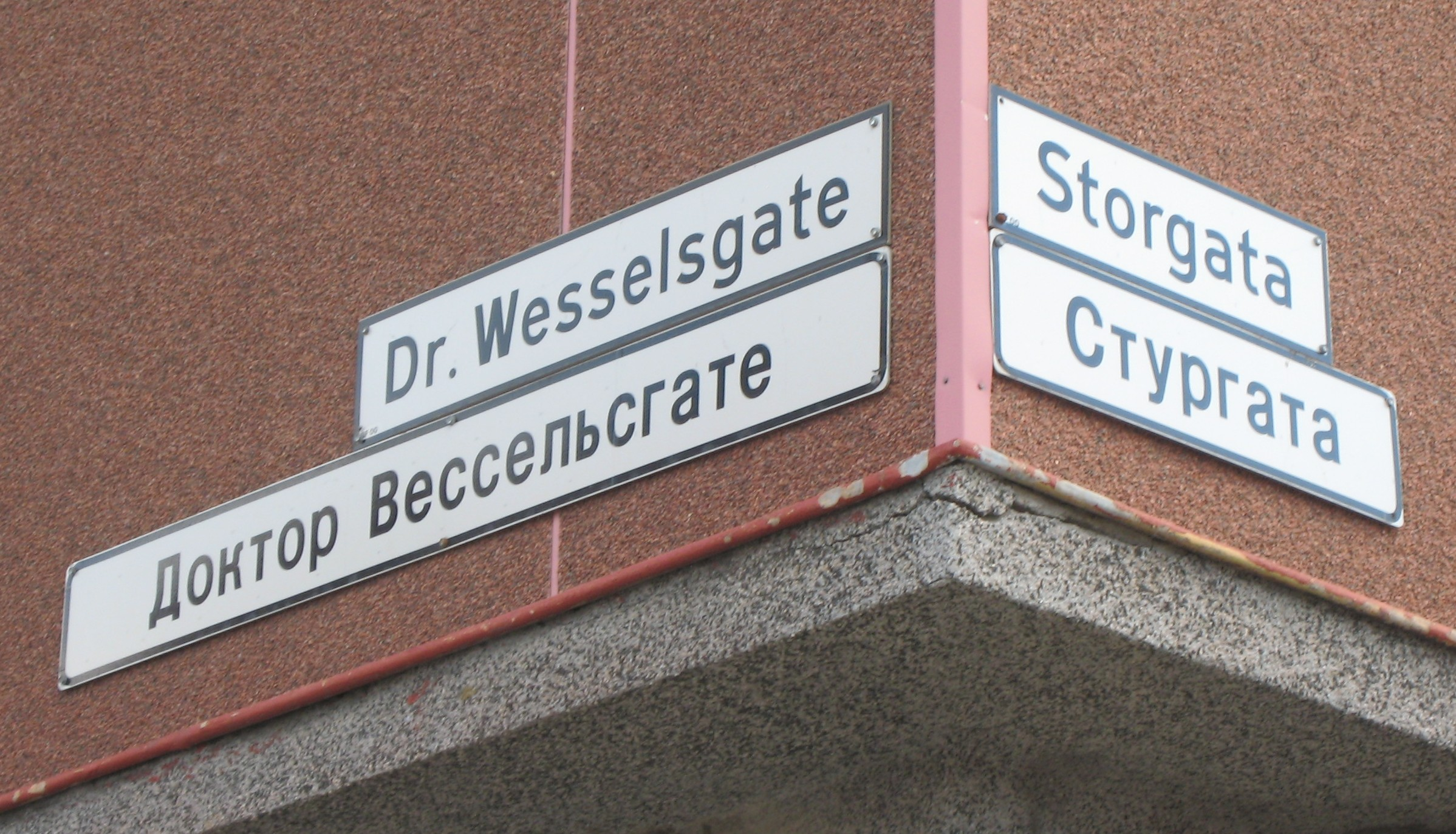 Street signs with Latin and Cyrillic letters, in the corner of Storgata and Dr. Wesselsgate, Kirkenes, Norway.